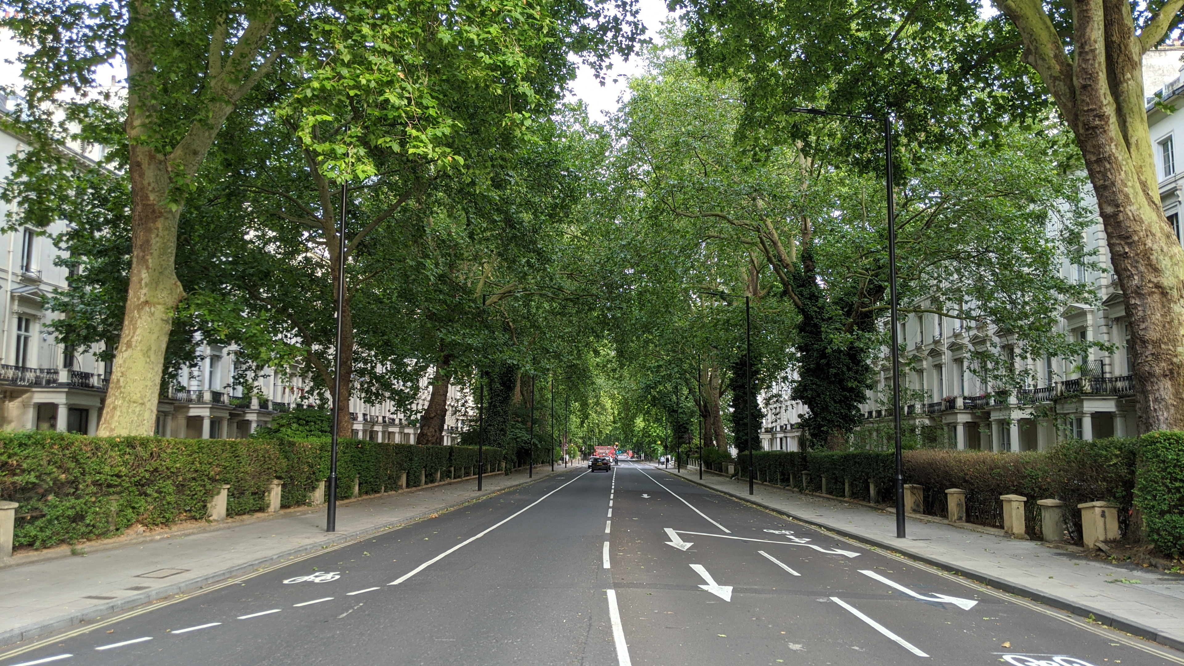 Westbourne Terrace is a tree-line grand street in London.